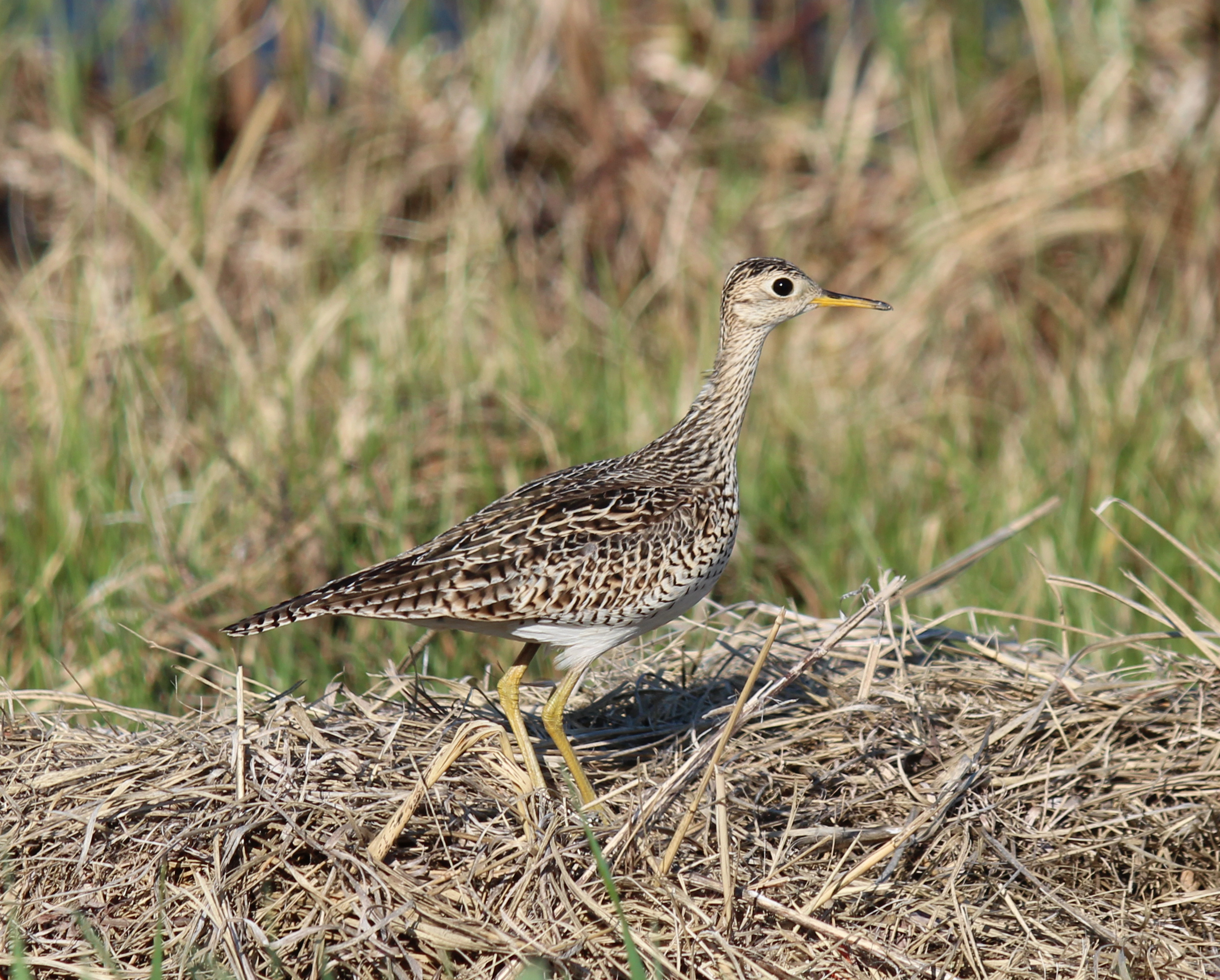 This Upland Sandpiper Bartramia longicauda was spotted near a potential FWS wetland easement acquisition, at Long Lake WMD, Burleigh County, North Dakota. Credit: Doug Mosser / USFWS.